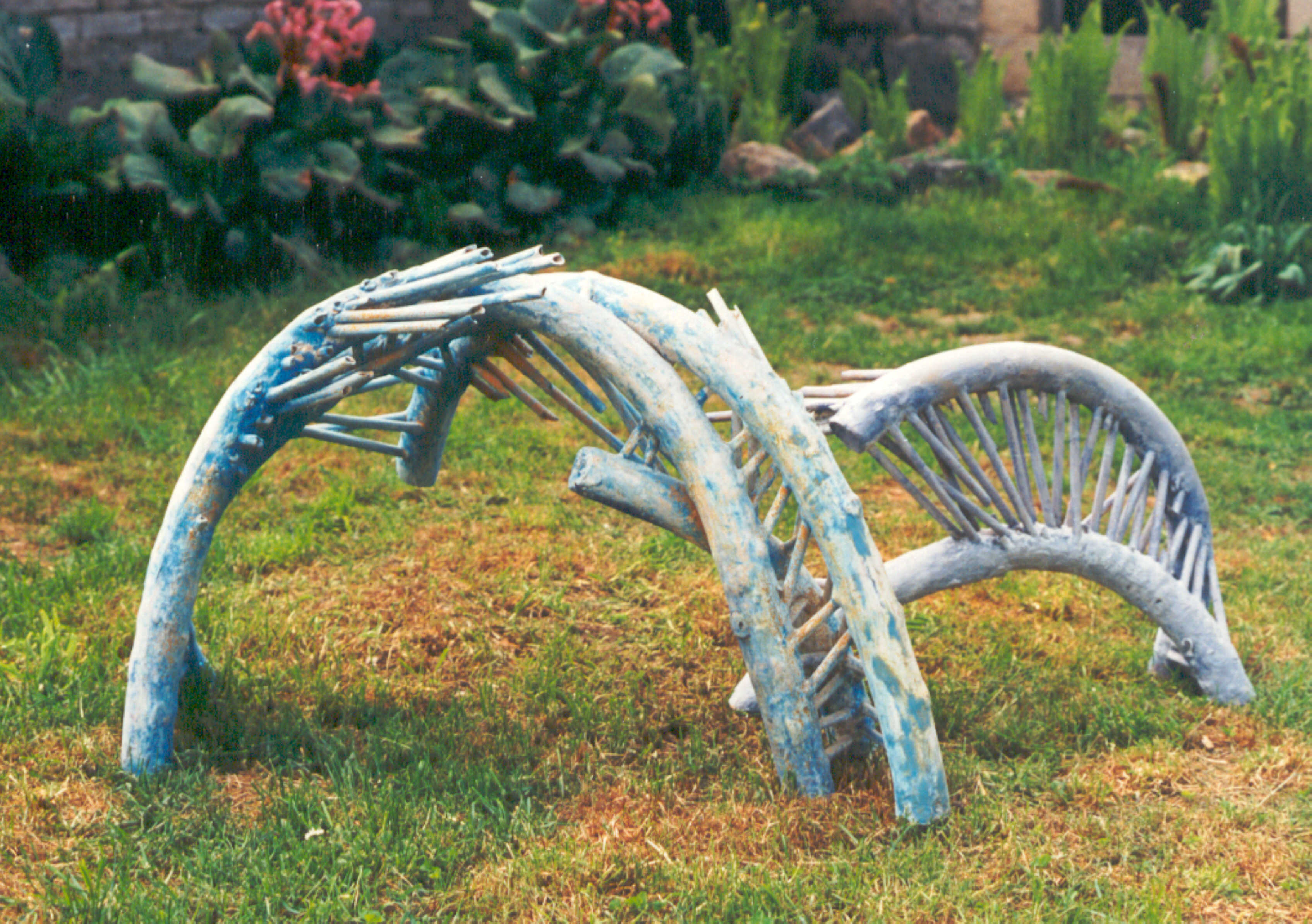 Ceramic sculpture named Bridge over Troubled Water, created by Ivan Hostaša